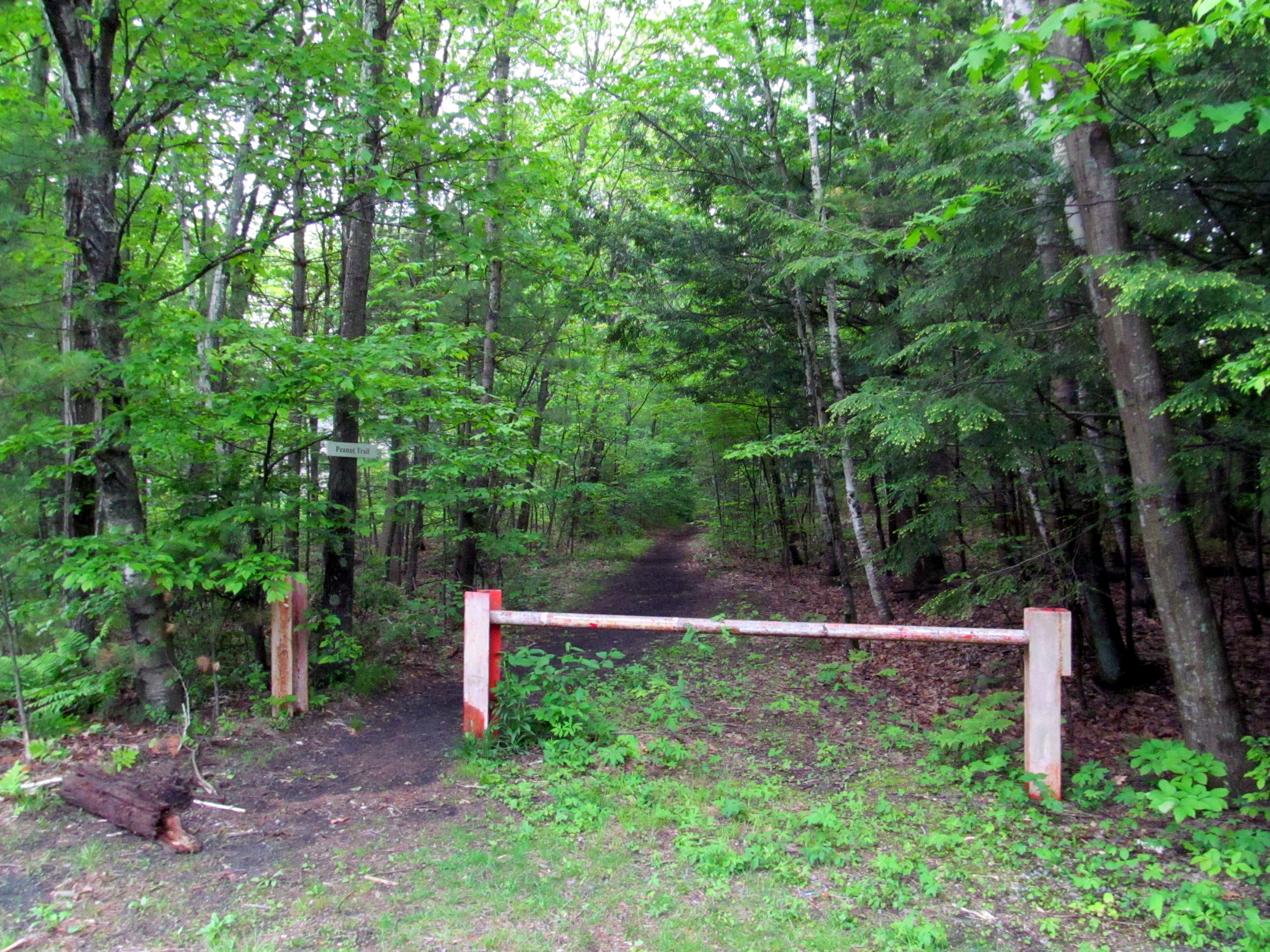 The Peanut Trail on the former West Amesbury Branch in May 2017